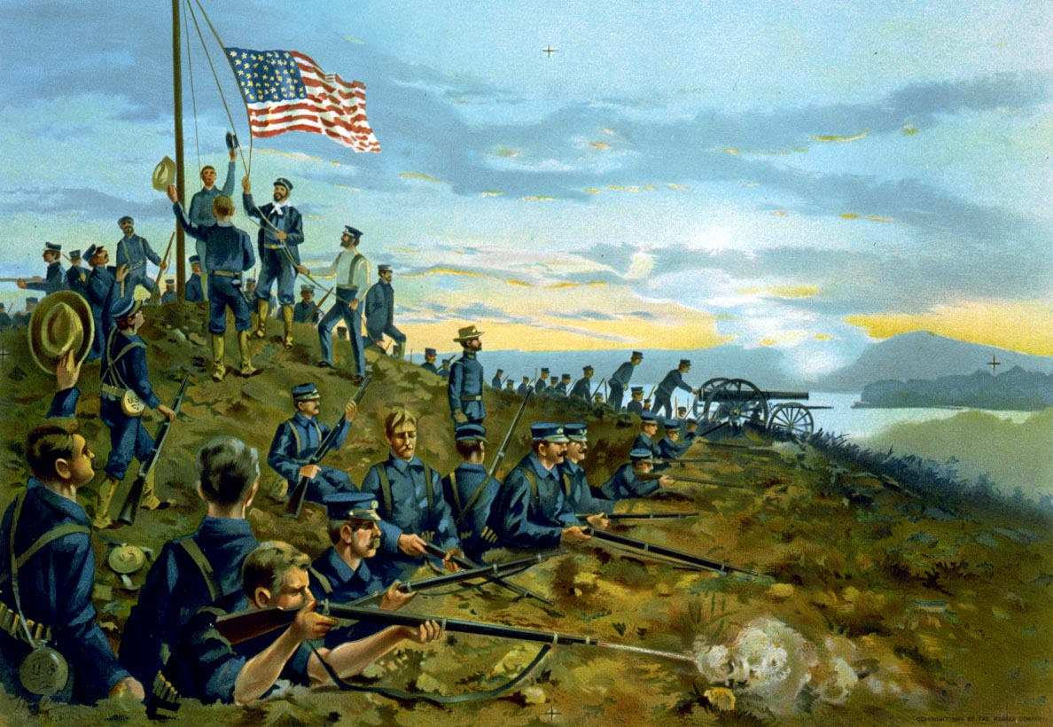 LC-USZC4-2678: Spanish-American War, 1898. First hoisting of the Stars and Stripes by the US Marines on Cuban soil, June 11, 1898. Photomechanical print by the Werner Company, Akron, Ohio, 1898. Courtesy of the Library of Congress. (5/8/2015).